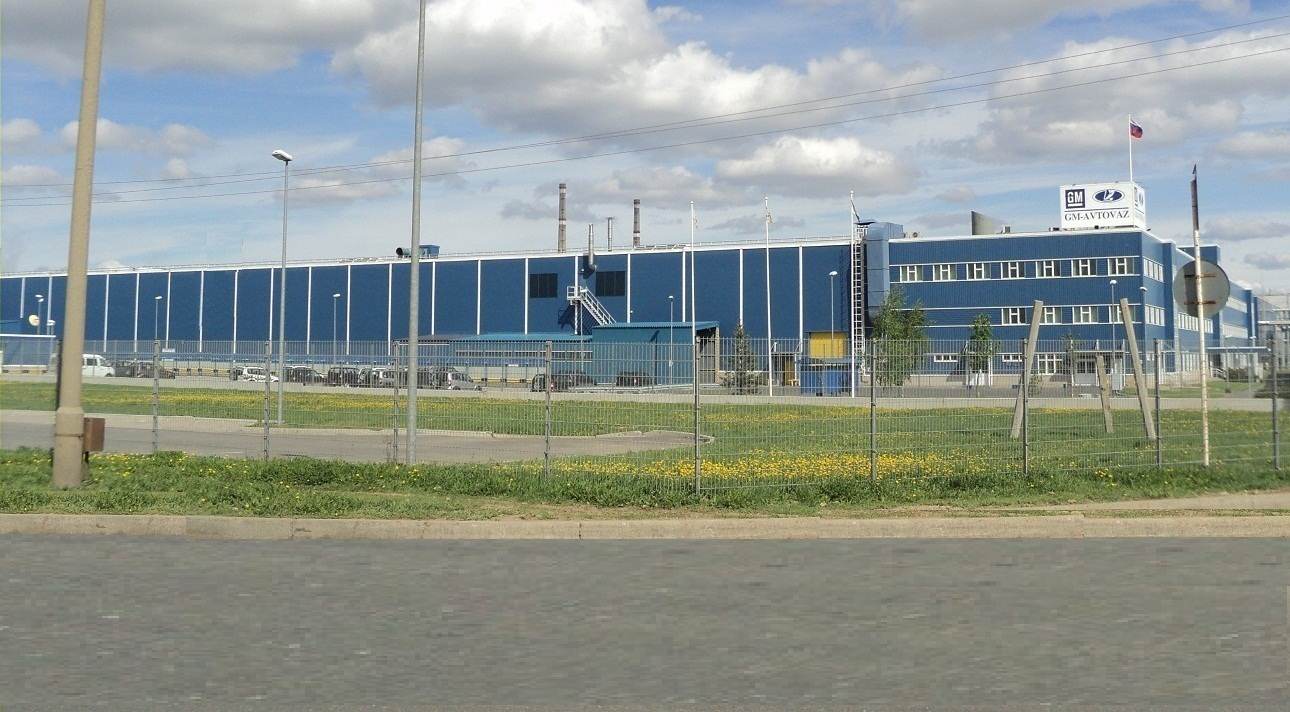 GM-AVTOVAZ - joint venture in Russia, city Togliatti